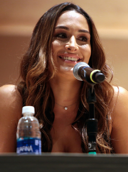 The Professional Wrestler Nikki Bella at Phoenix ComicCon in 2016.